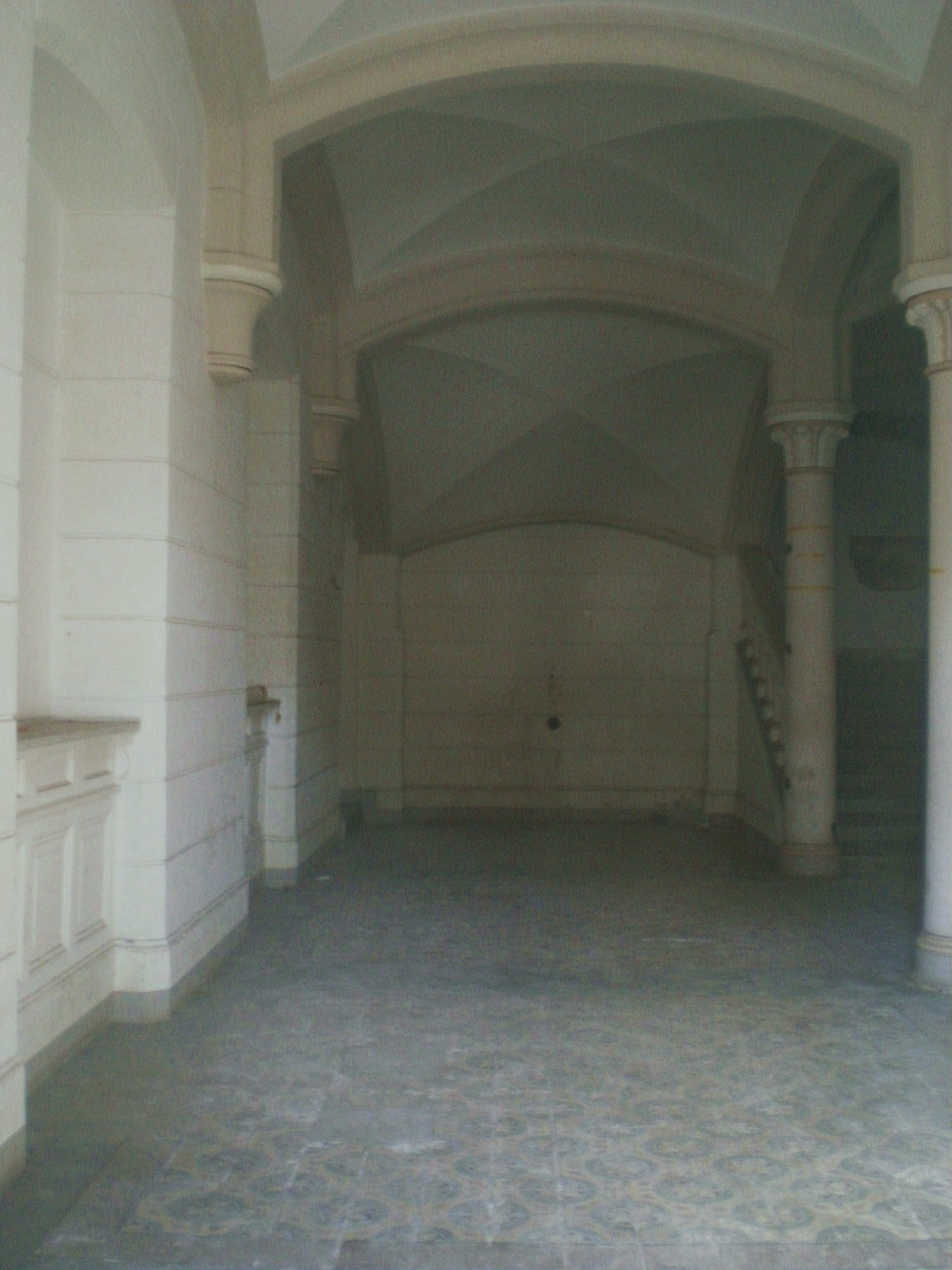 Bochum-Nord station, former counter hall, Germany 2016